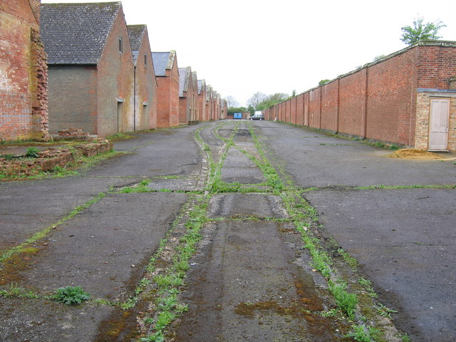 A pile of magazines At the west end of the former ordnance depot at Weedon Bec were two rows of brick magazines for the storage of ammunition. The depot was originally served by a branch off the Grand Union Canal (here out of sight behind the buildings on the left) but later a long railway siding was provided off the London to Birmingham line, the disused rails of which are seen here. The military moved out some years ago and the site is now privately owned.